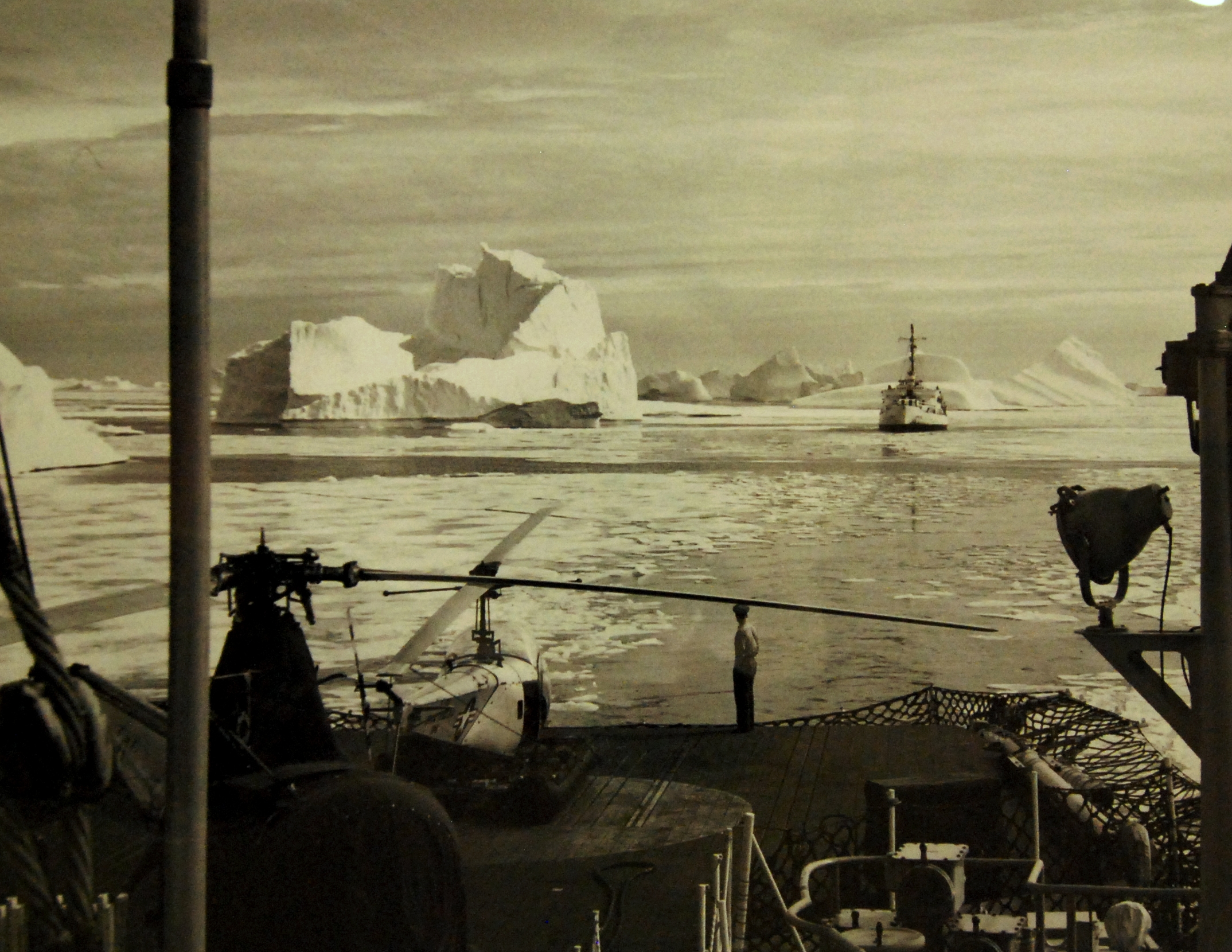 Lot 5967-3: Coast Guard Icebreakers and Navy Task Group in Arctic Mission. Moving cautiously in front of hundreds of gigantic icebergs, the U.S. Coast Guard Cutters Northwind (WAGB-282), (background), and Eastwind (WAGB-279)traverse a Greenland fjord near one of the most active glaciers. Both icebreakers were part of the Navy Task Group which successfully completed Arctic missions during the summer months. Official U.S. Coast Guard Photograph, release September 1952. Photographed through Mylar sleeve. (2015/10/09).